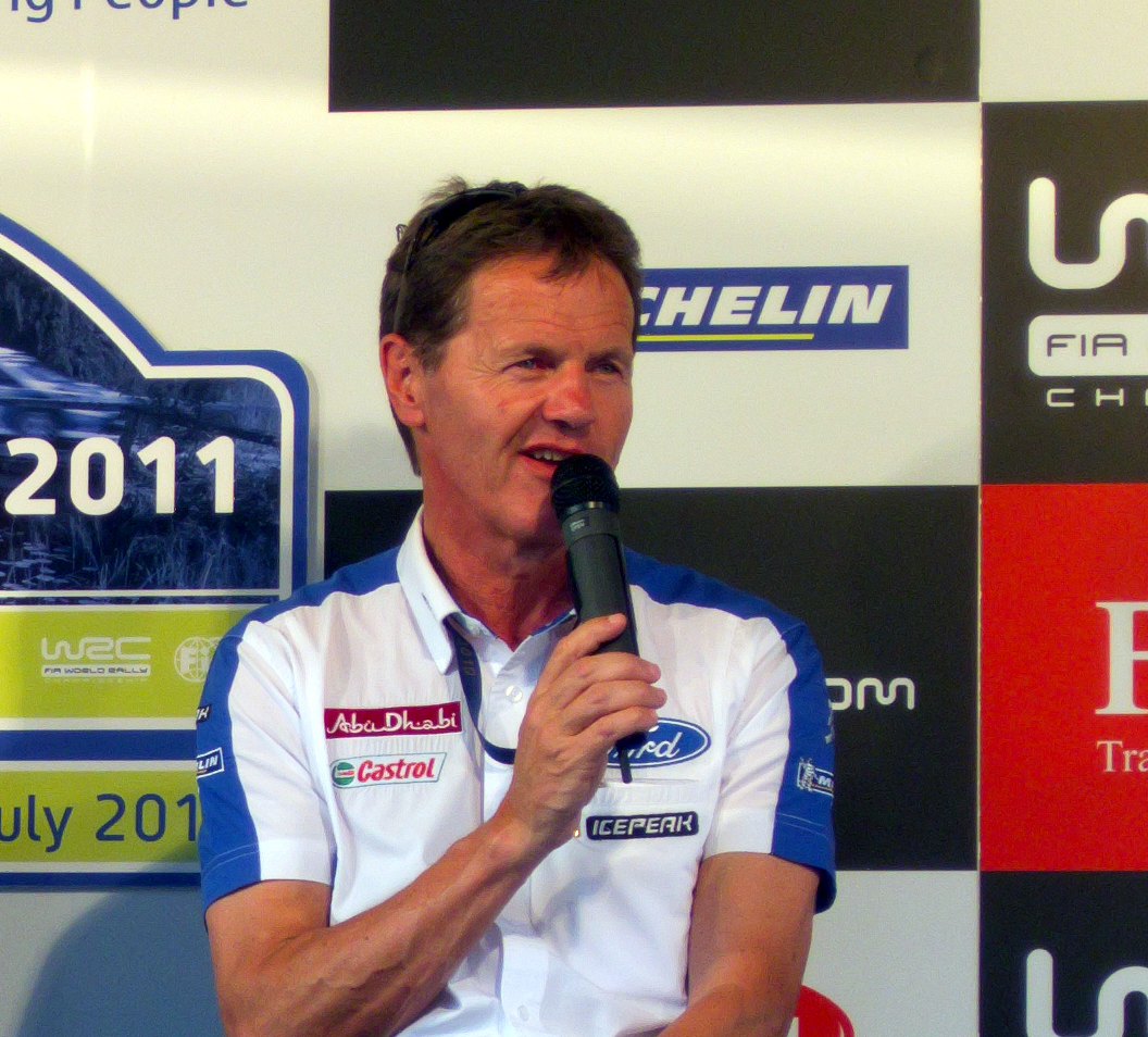 Ken Rees, Olivier Quesnel and Malcolm Wilson at the end-of-day interview of day one of Rally Finland 2011.